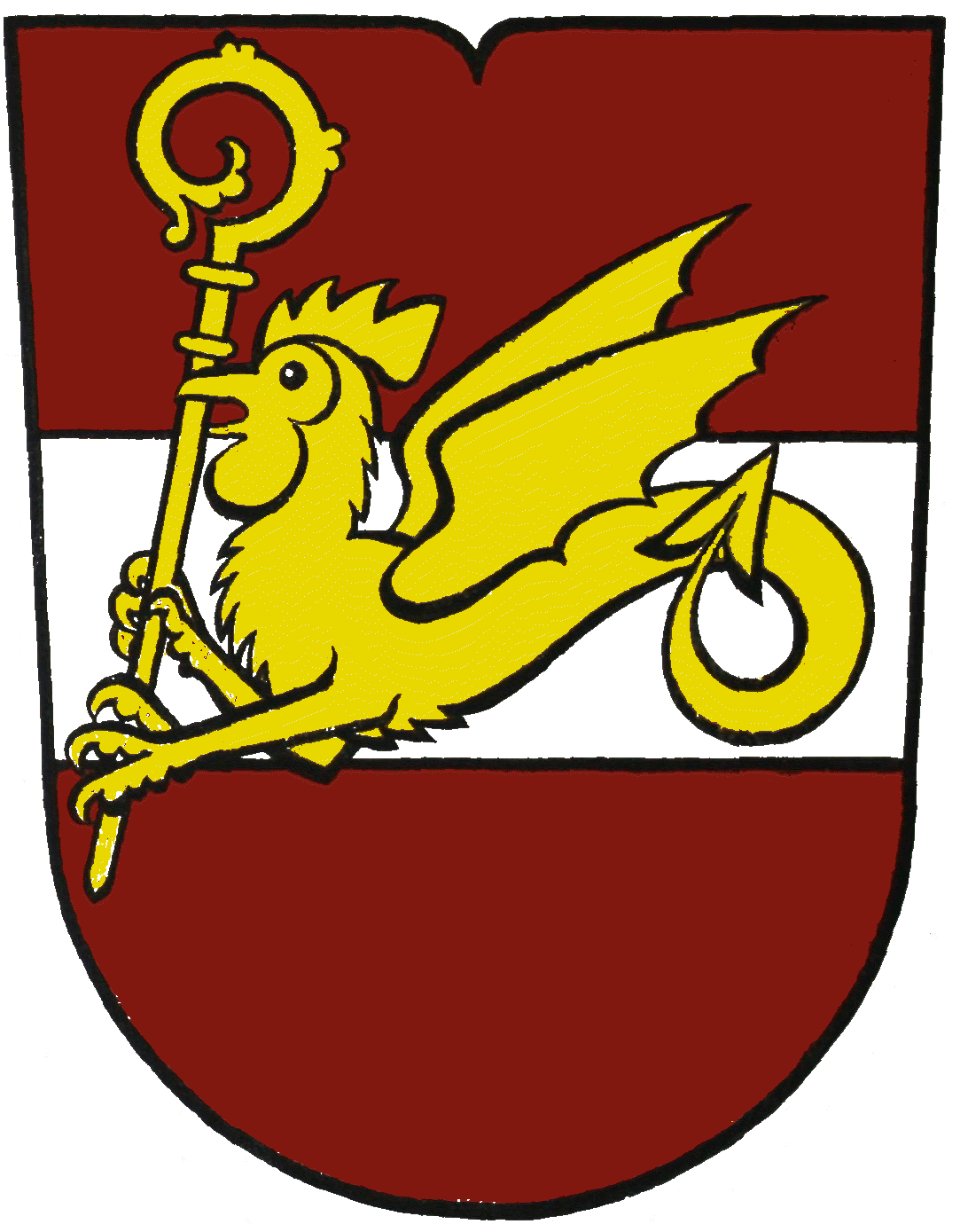 coat of arms district of Porrentruy, Jura, (Switzerland)